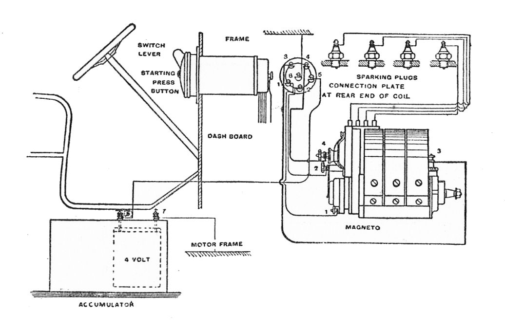 Dual ignition circuit (Rankin Kennedy, Modern Engines, Vol III).jpg